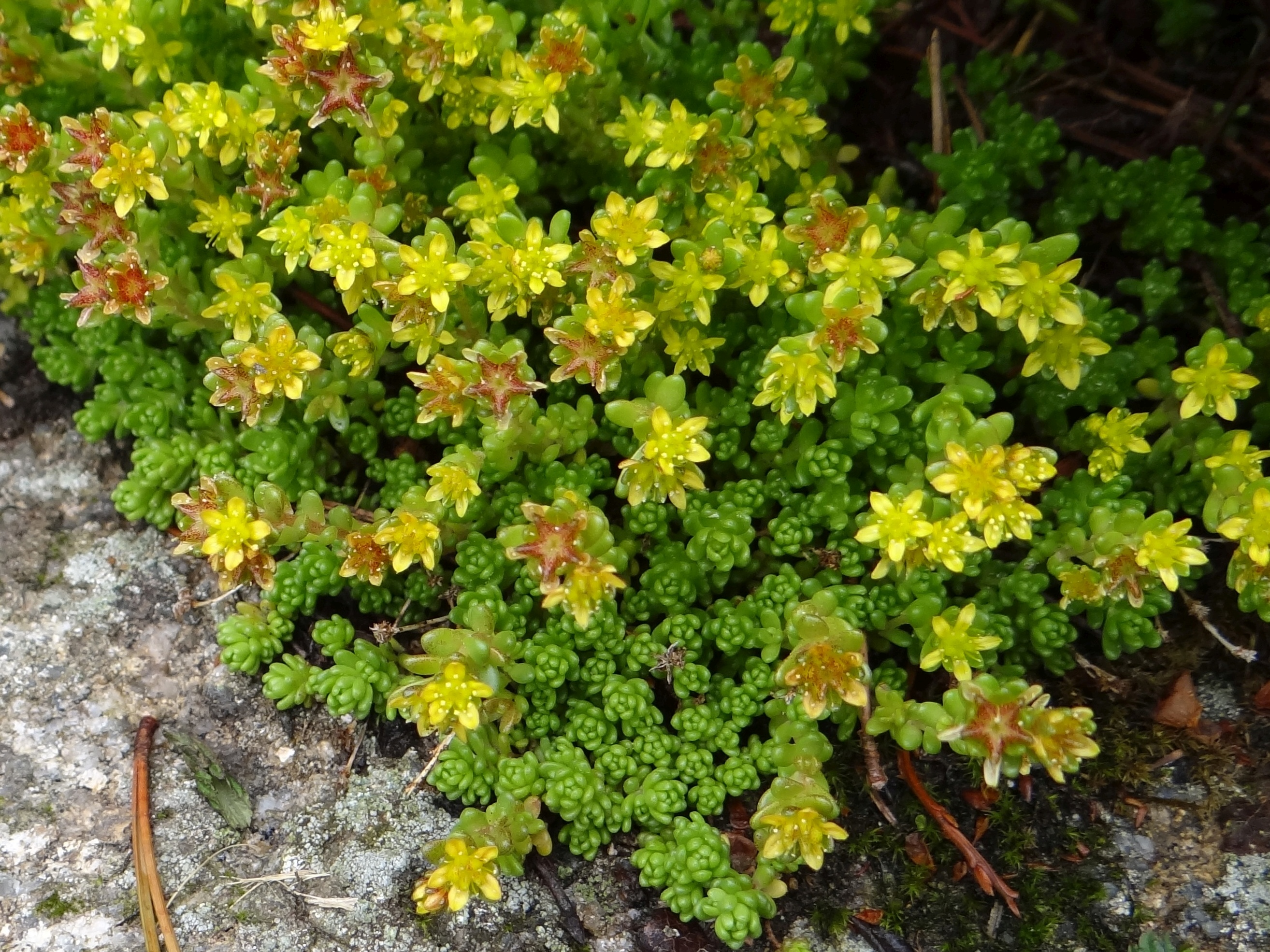 Sedum alpestre (location: Poland, Tatra Mountains, Zielona Dolina Gąsienicowa)